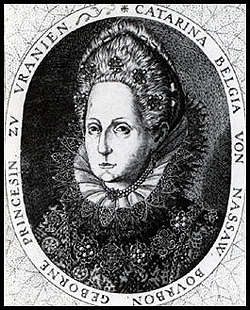 Etching of Countess Katharina Belgica of Nassau-Oranien, married to Count PhilippLudwig II. of Hanau-Muenzenberg